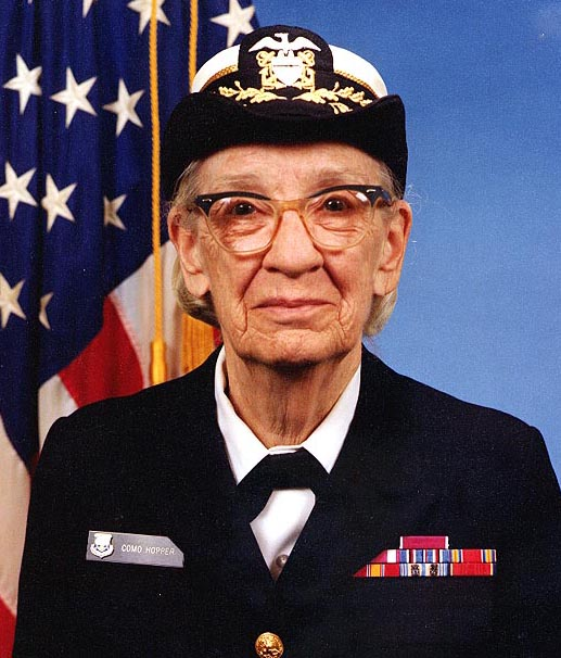 Commodore Grace M. Hopper, USNR Official portrait photograph.